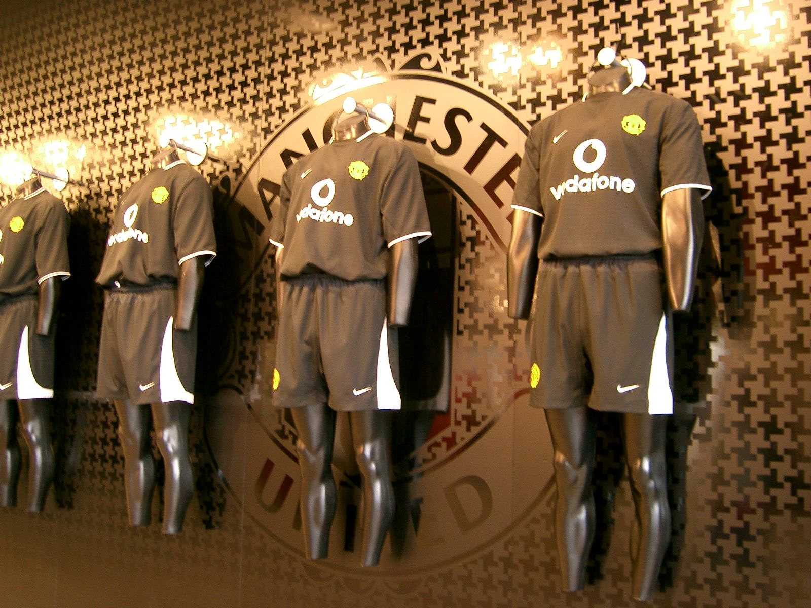 Manchester United kits